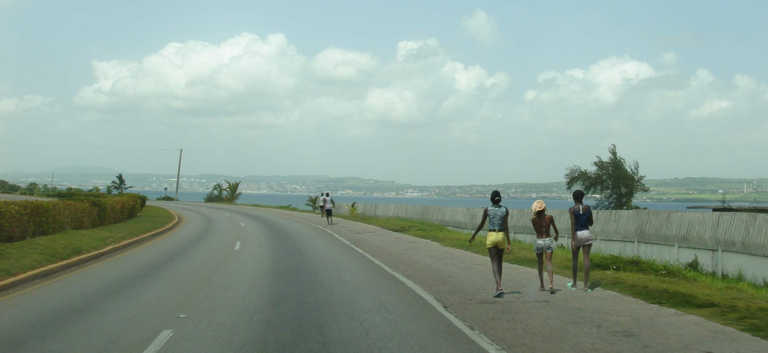 Via Blanca (highway), westbound near Matanzas, Cuba